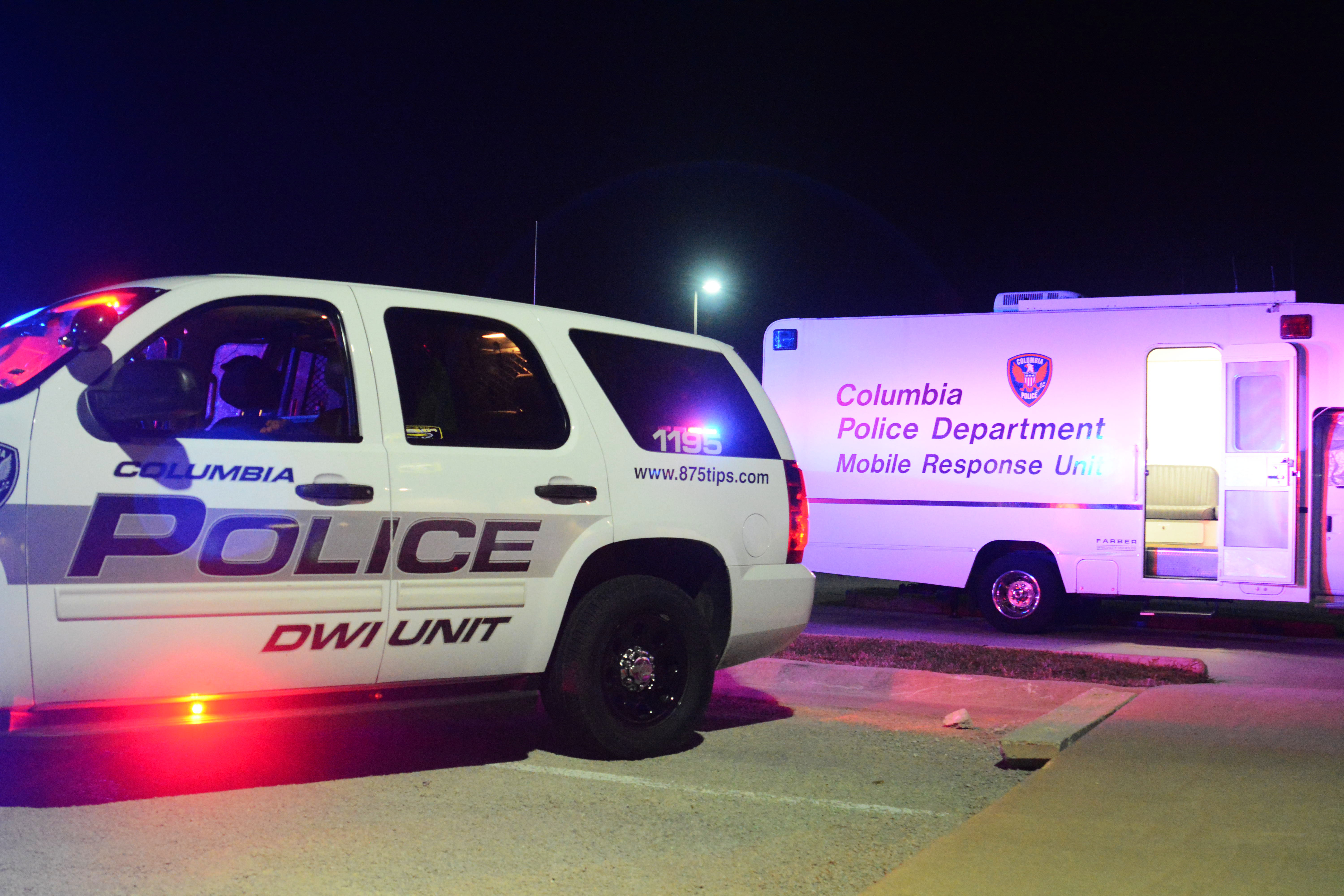 Police department vehicle, Columbia, Missouri